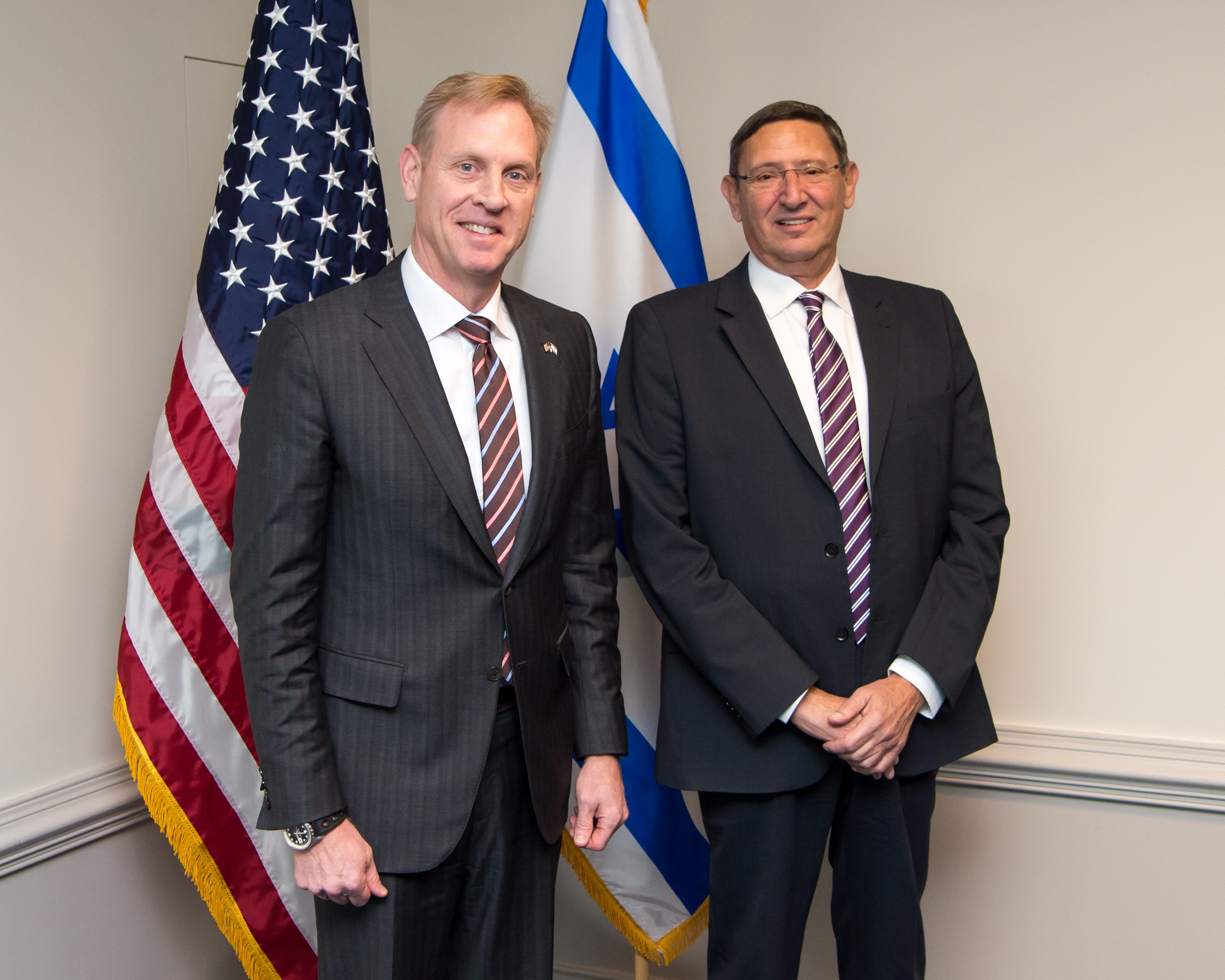 Deputy Secretary of Defense Patrick M. Shanahan meets with Israel's Defense Ministry Director General Udi Adam at the Pentagon in Washington, D.C., Dec. 7, 2017. (DoD photo by U.S. Air Force Staff Sgt. Jette Carr)